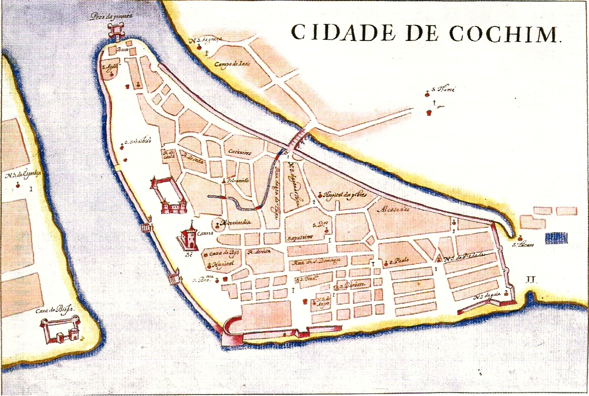 Old Portuguese map of the Santa Cruz (now Fort Kochi) district of city of Cochin (Cochim), India.